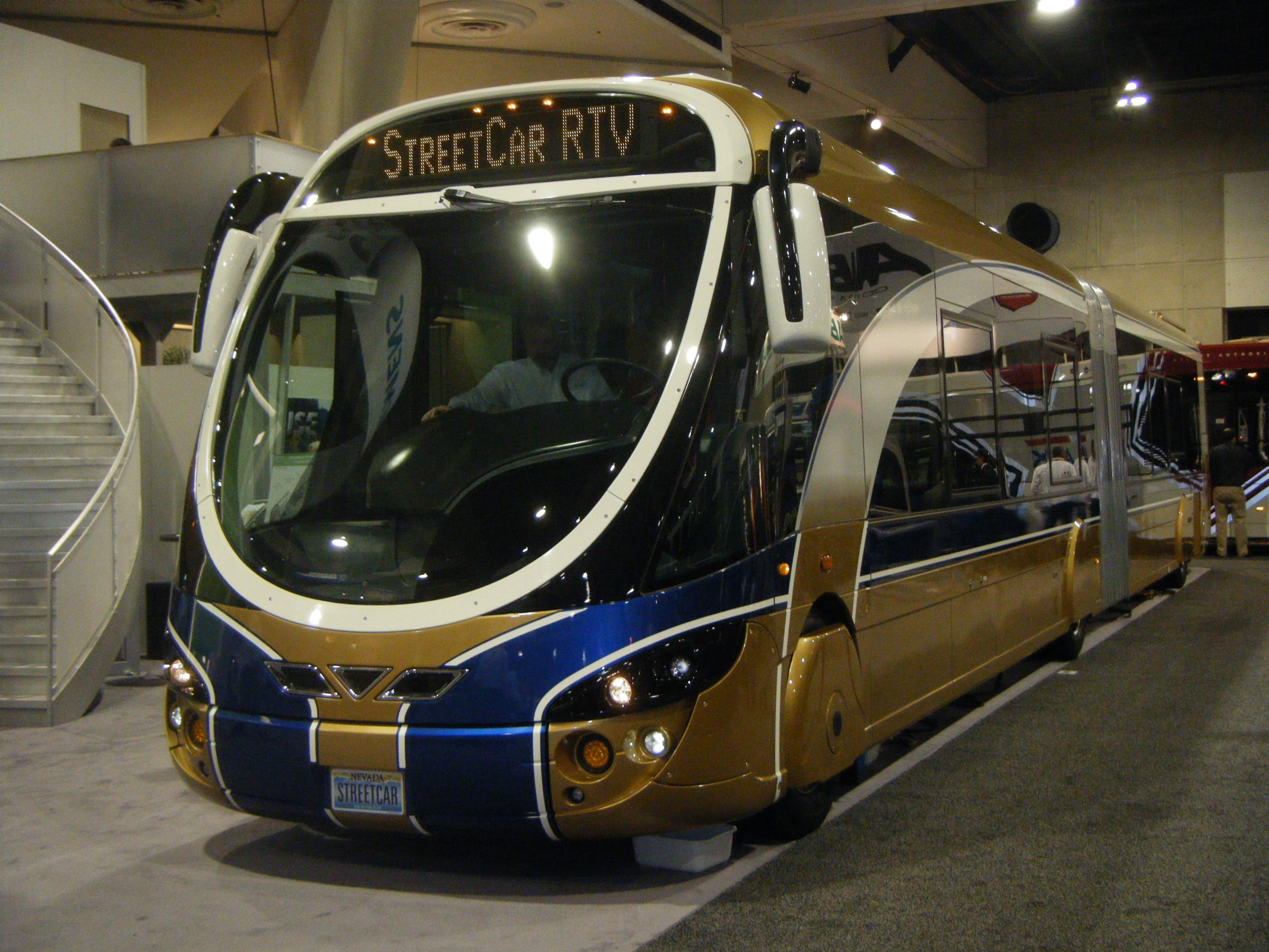 A 2008 Wrightbus Streetcar RTV built for the RTC in Las Vegas. This picture was taken at the APTA EXPO 2008.